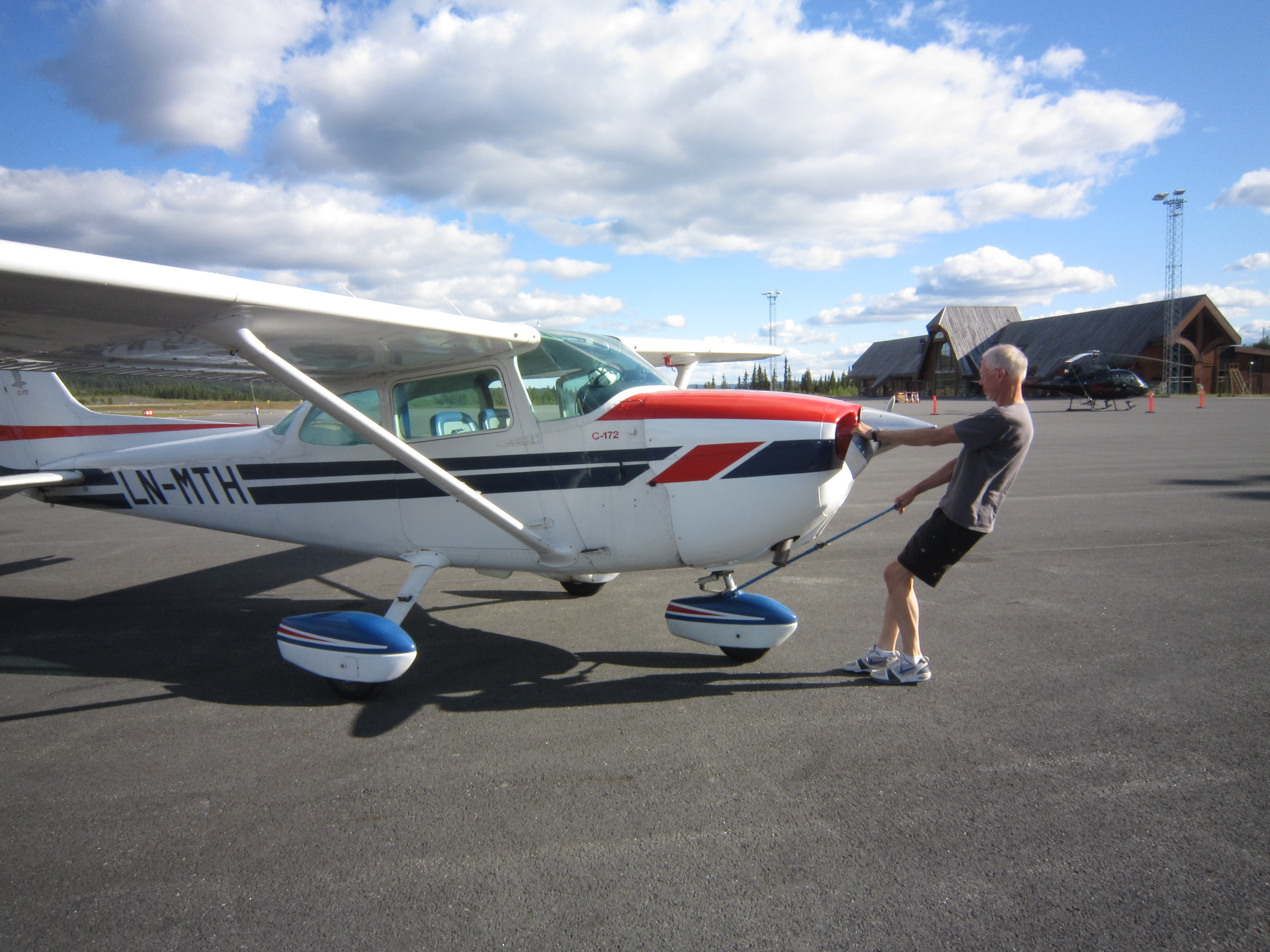 Cessna 172N at Fagernes Airport, Leirin